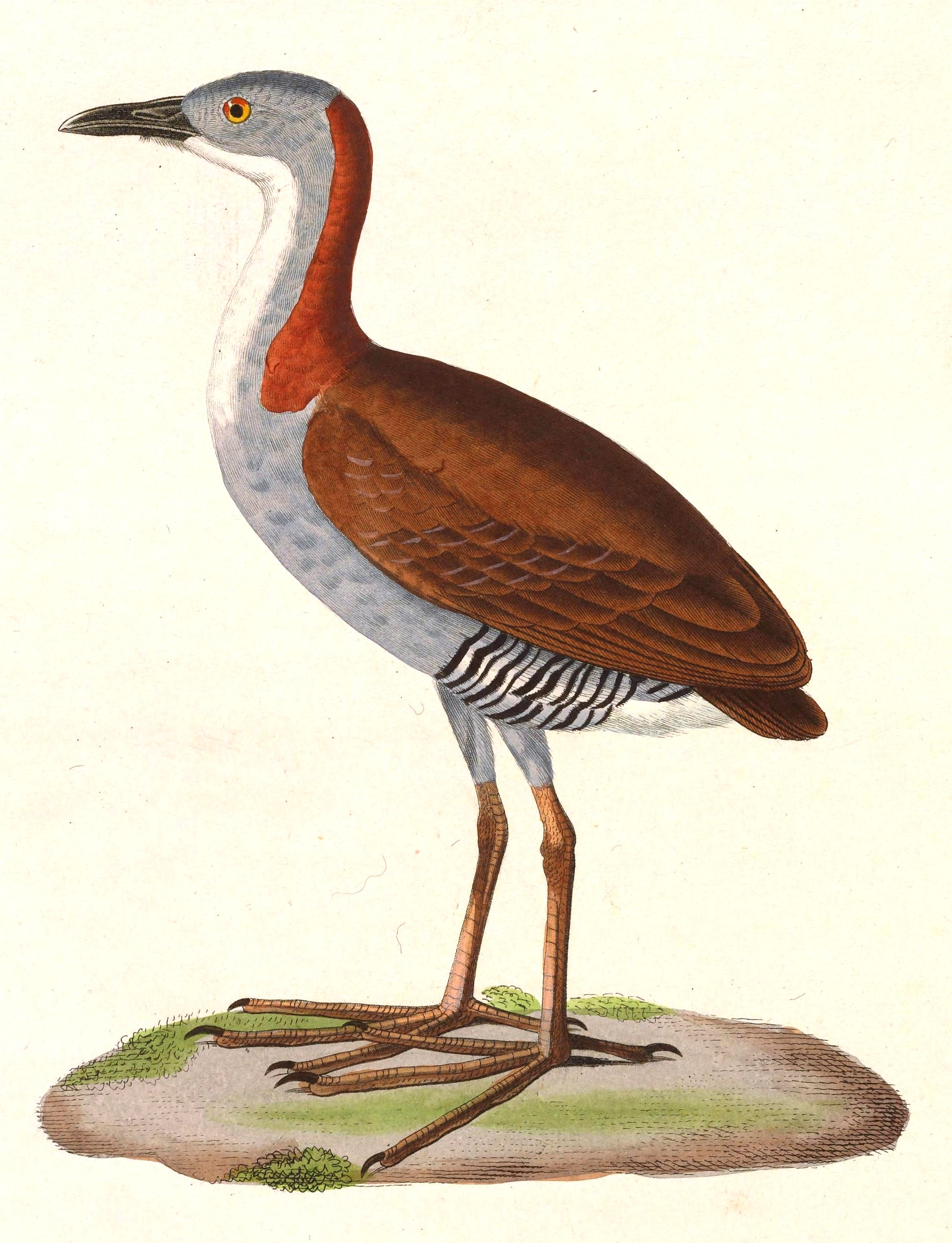 « Rallus exilis » = Laterallus exilis (Grey-breasted Crake) - adult